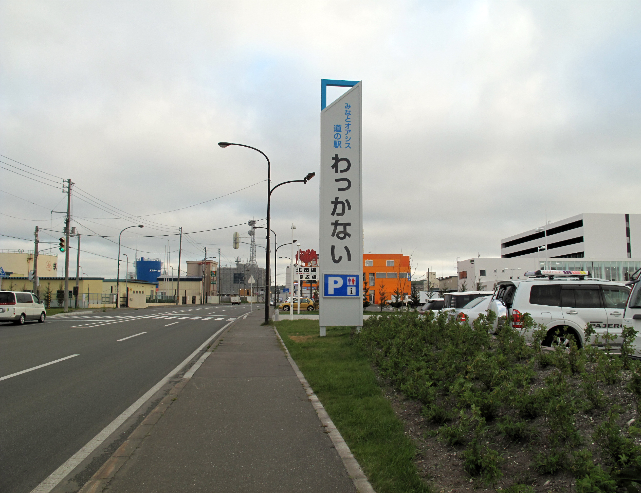 Michinoeki Wakkanai